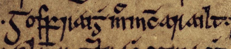 An excerpt from folio 19v of Oxford Bodleian Library MS Rawlinson B 488 (the Annals of Tigernach). The excerpt concerns Gofraid Crobán, King of Dublin and the Isles (died 1095).